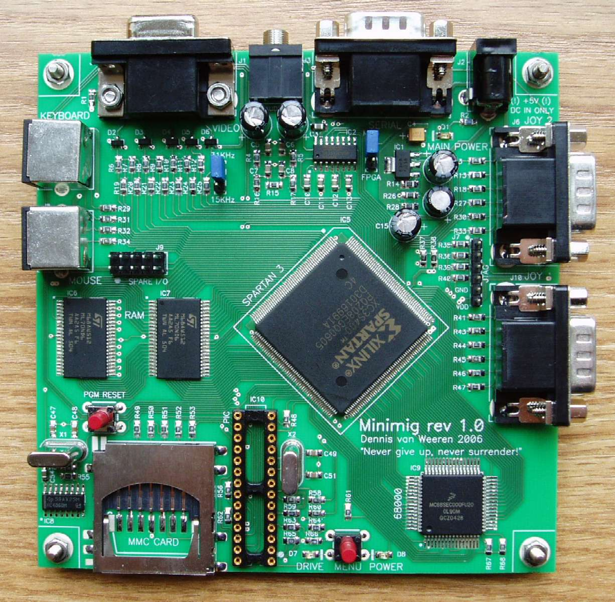 Author/Photographer Dennis van Weeren released the picture under "public domain". As documented at